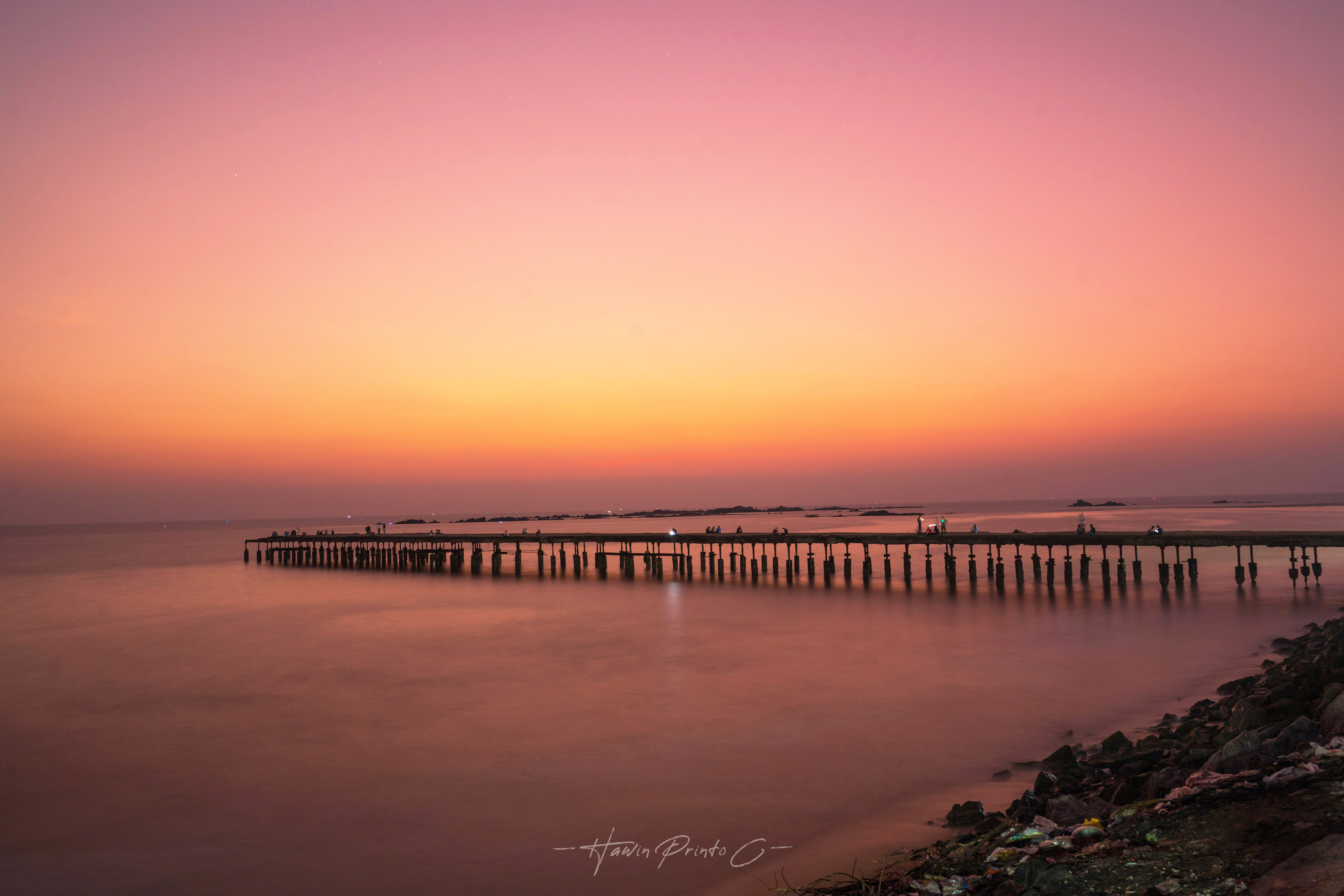 Thalassery Pier locally known as Kadalpalam is located in Thalassery, Kannur District of Kerala state, south India.It is an old pier extending out into the Arabian Sea. It is frequented by people taking evening walks. This "Kadalpalam" was used as a commercial access through the sea, to and from the Tellicherry Bazar, during the European rule. At present it is in a deteriorating state.